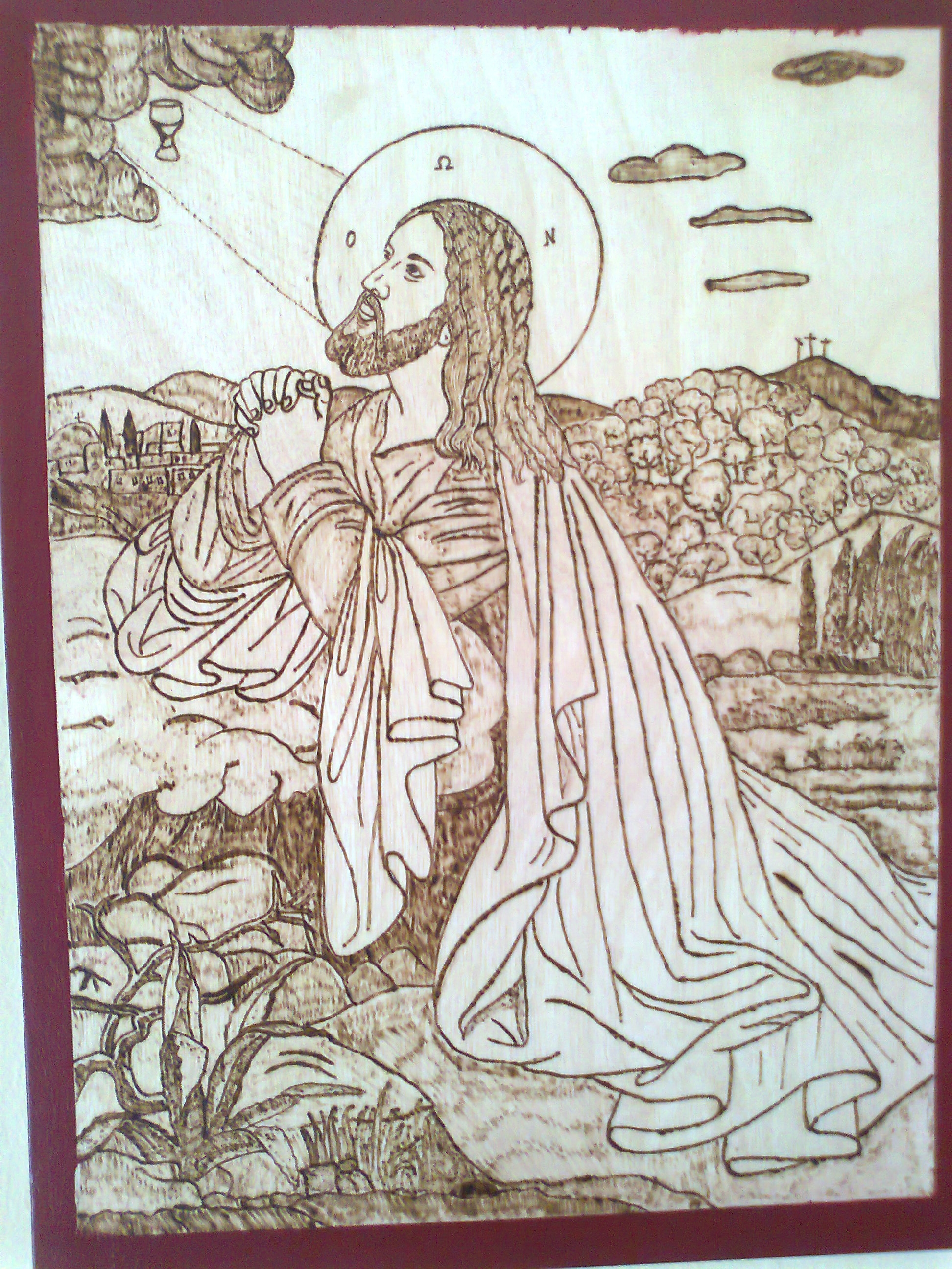 Icon of Jesus praying. Pyrography.